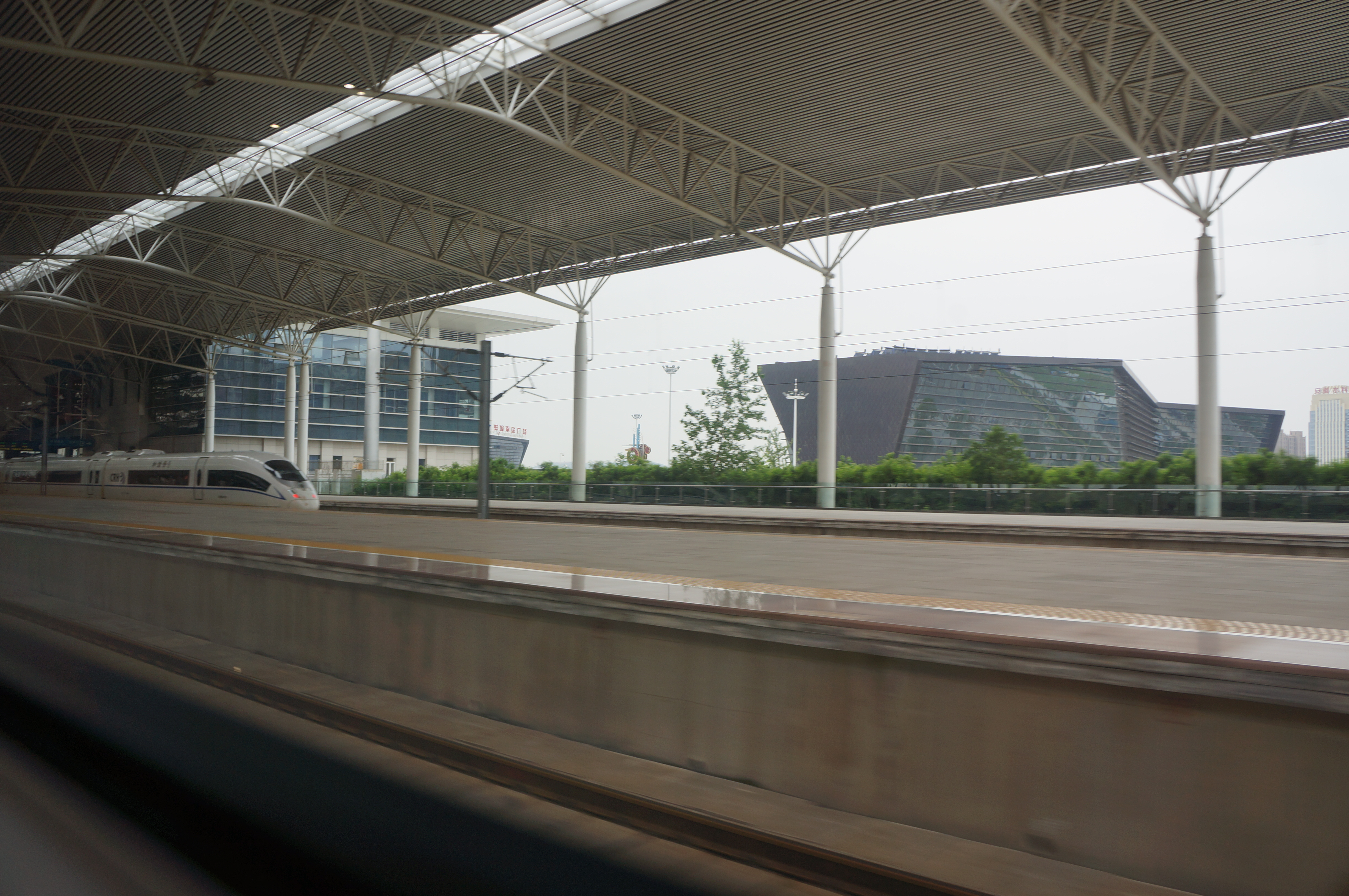 201606 CRH380B at Bengbunan Station